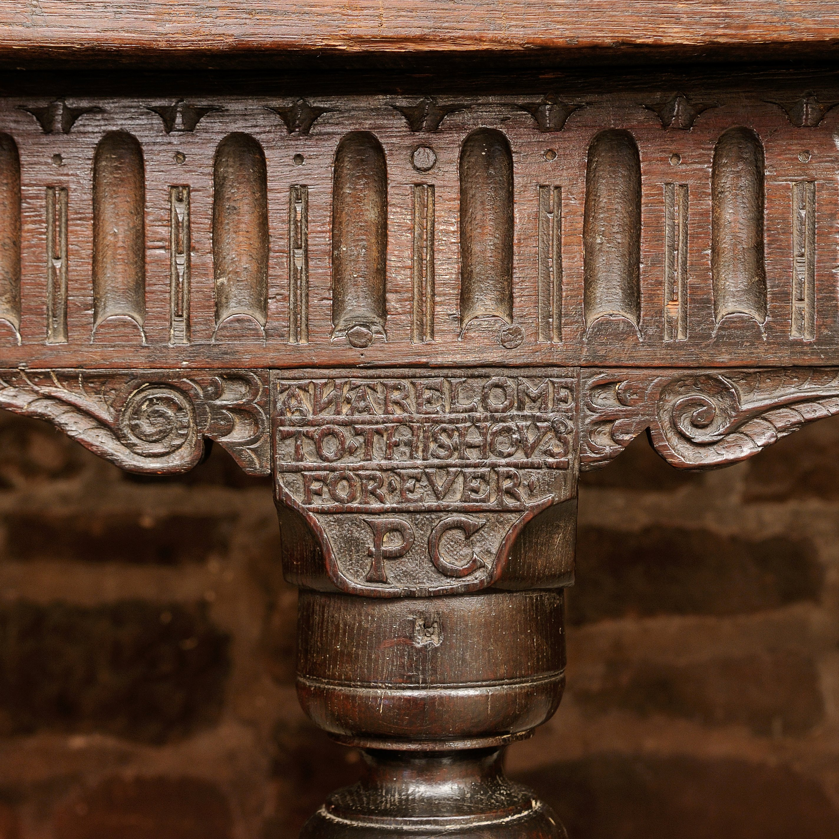 18ft long 1630s oak table originally from the now demolished Crooke Hall in Lancashire, now at Selly Manor, Birmingham, England.